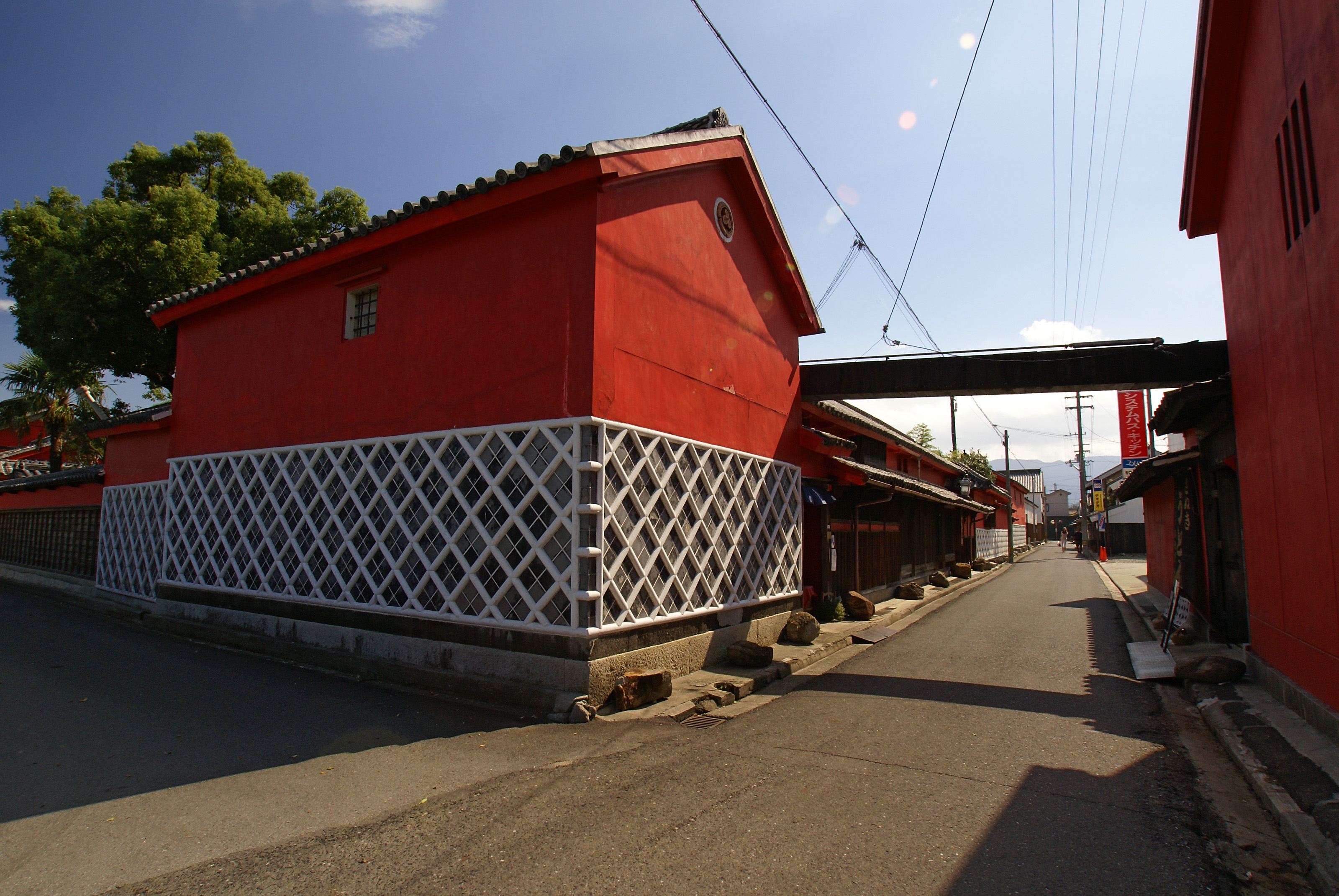 Kamebishi-ya in Hiketa, Higashikagawa, Kagawa prefecture, Japan